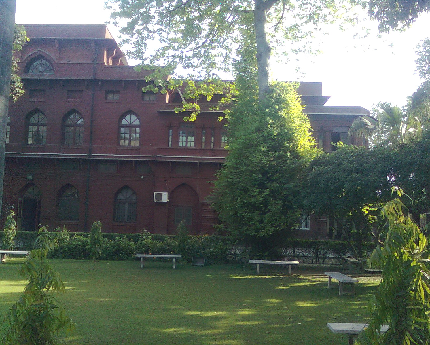 old campus. PU